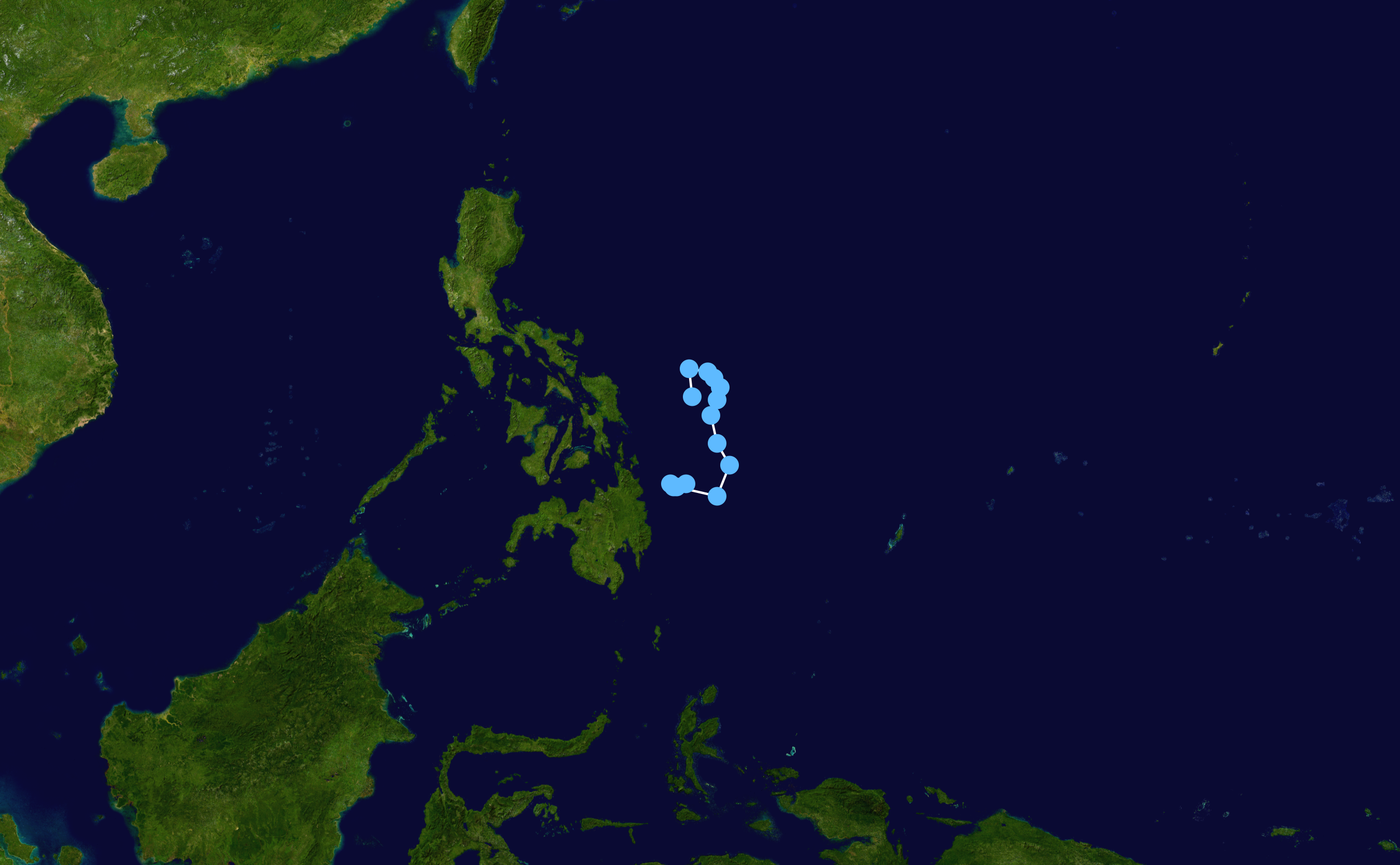 Track map of Tropical Depression Auring of the 2009 Pacific typhoon season. The points show the location of the storm at 6-hour intervals. The colour represents the storm's maximum sustained wind speeds as classified in the Saffir–Simpson scale (see below), and the shape of the data points represent the nature of the storm, according to the legend below. Saffir–Simpson scale Tropical depression≤38 mph≤62 km/h Category 3111–129 mph178–208 km/h Tropical storm39–73 mph63–118 km/h Category 4130–156 mph209–251 km/h Category 174–95 mph119–153 km/h Category 5≥157 mph≥252 km/h Category 296–110 mph154–177 km/h Unknown Storm type Tropical cyclone Subtropical cyclone Extratropical cyclone / Remnant low / Tropical disturbance / Monsoon depression